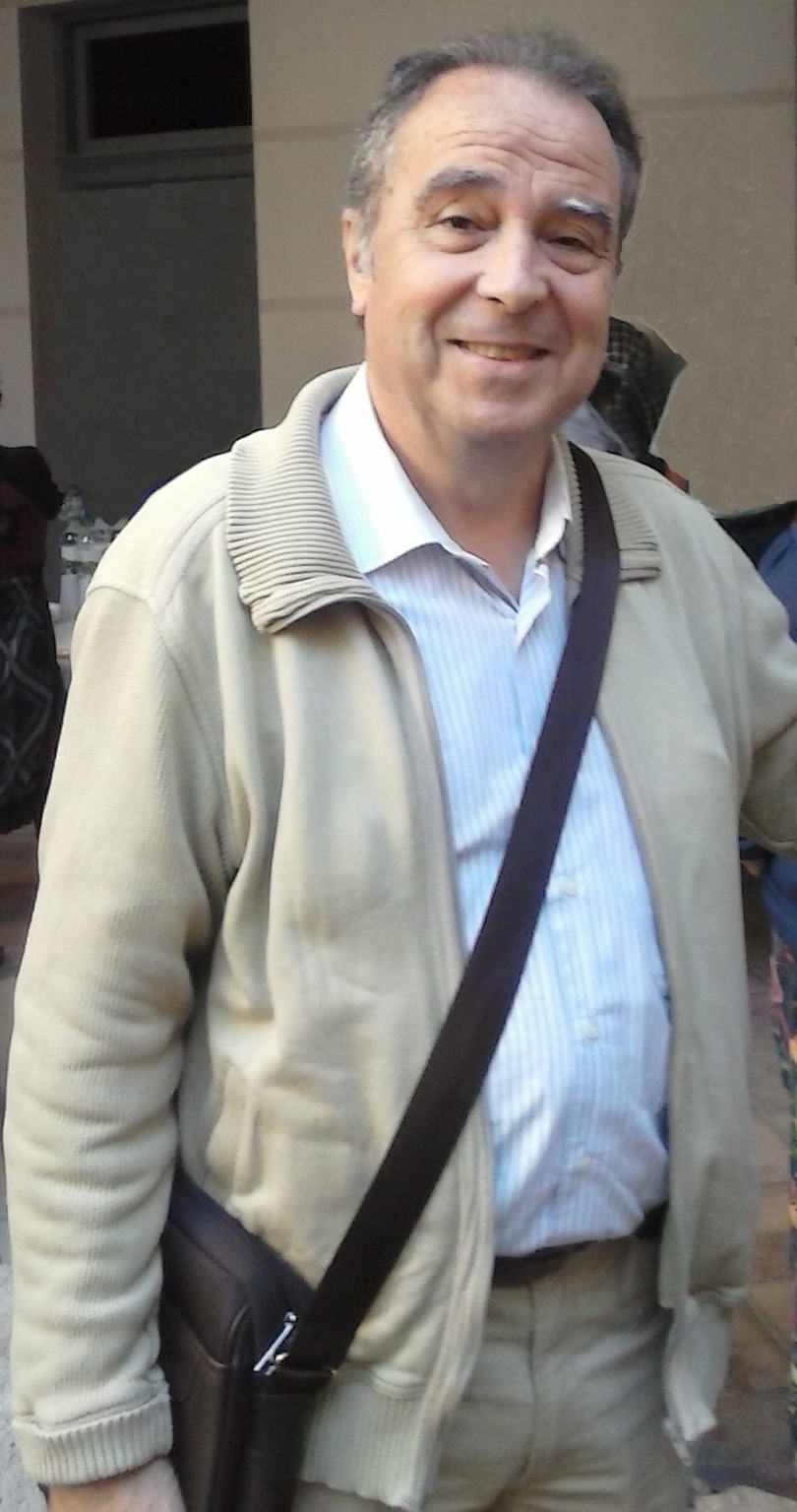 Composer Josep Antoni López in Girona, 2014